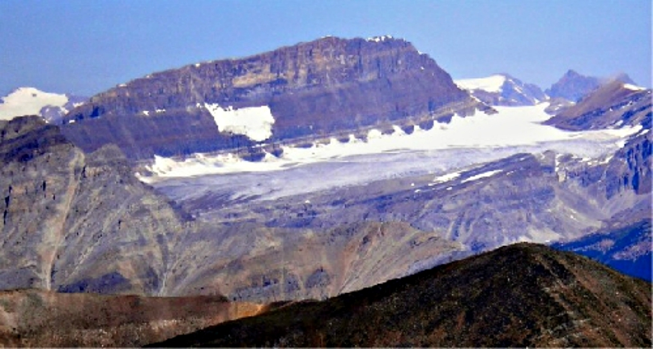 Mount Daly and Bath Glacier seen from Fairview Mountain summit. August 2009. Canadian Rockies